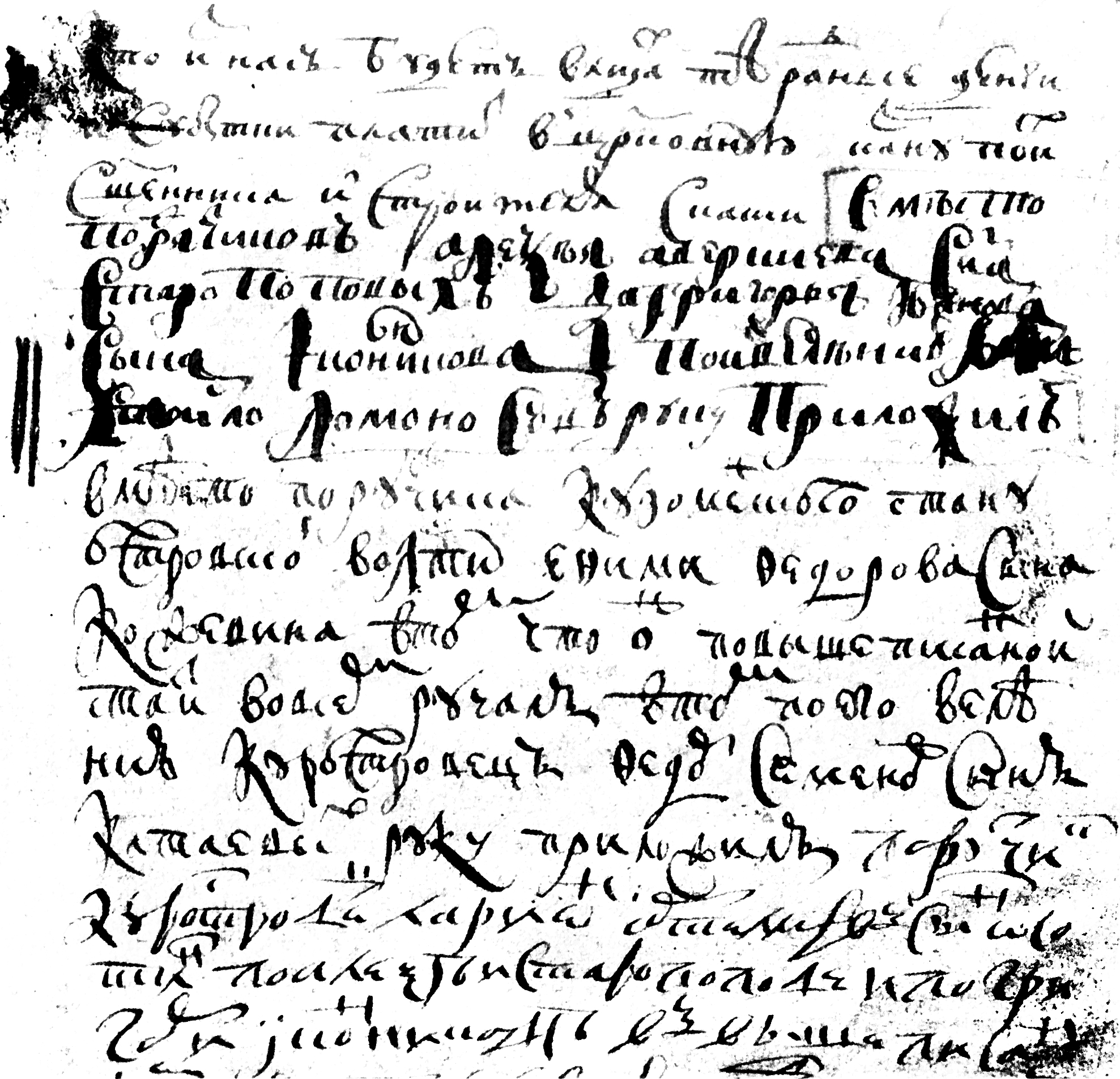 Lomonosov’s youthful write. 1725